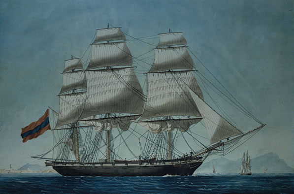 "Polaka" built in Hydra on 1816 from Kountouriotis Brothers, D. Al. Kriezis and B. Boudouris. Work of Ant. Roux father, Marseilles 1818. Nautical Museum of Greece Catalogue Number 321 Colour Lithography